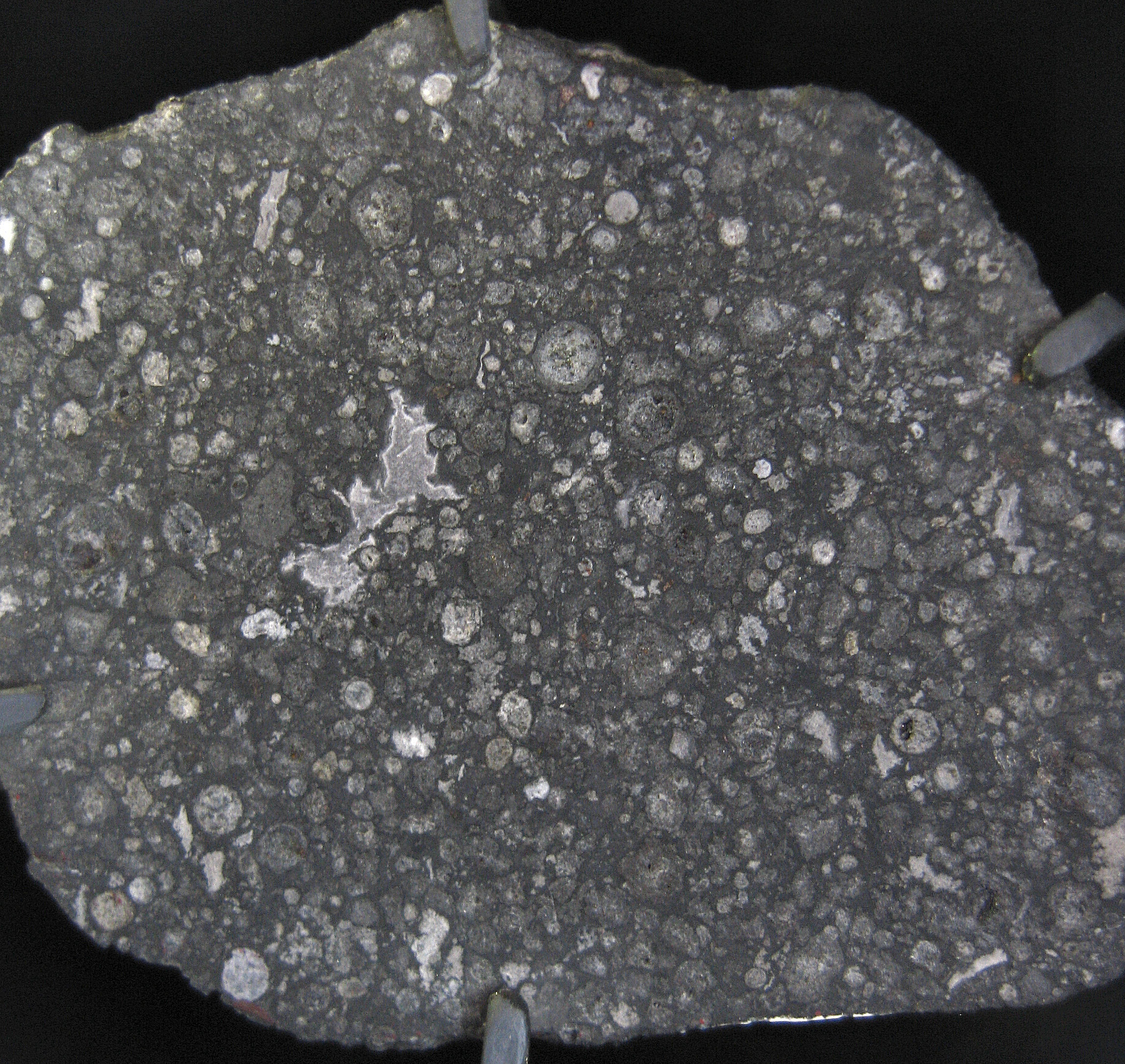 A slice from the 4.5-billion-year-old Allende meteorite. This rock was formed along with the solar system.